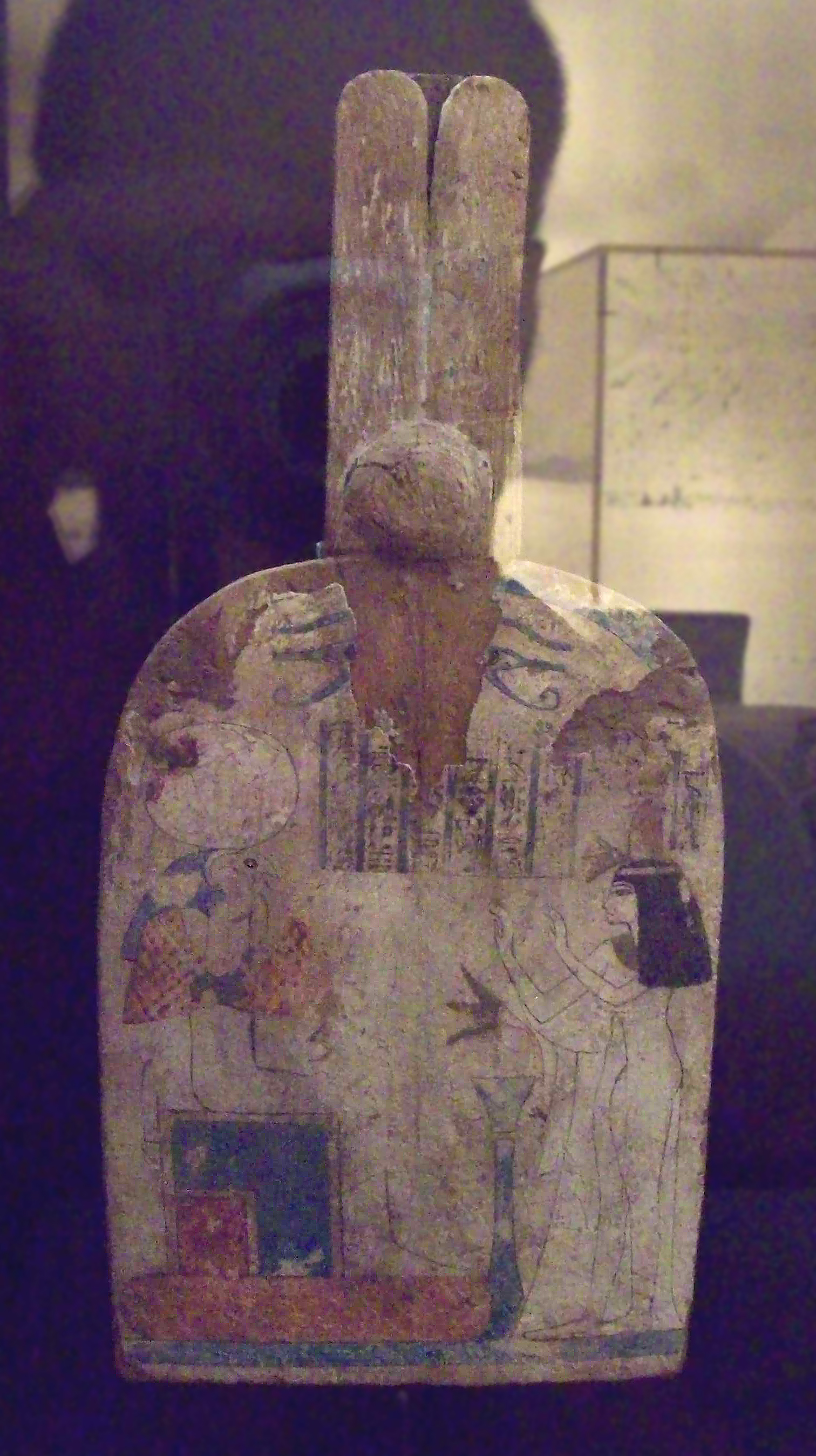 Ancient Egyptian funerary stele of the lady Taeskheret, made of wood coated with stucco and painted. It is dated between 950 and 900 BC (22nd Dynasty, Third Intermediate Period), and it probably comes from Thebes. It shows two udjat sacred eyes (up, damaged), the syncretic deities Ra-Horakhty-Atum and Ptah-Sokaris (left), and Taeskheret (right).